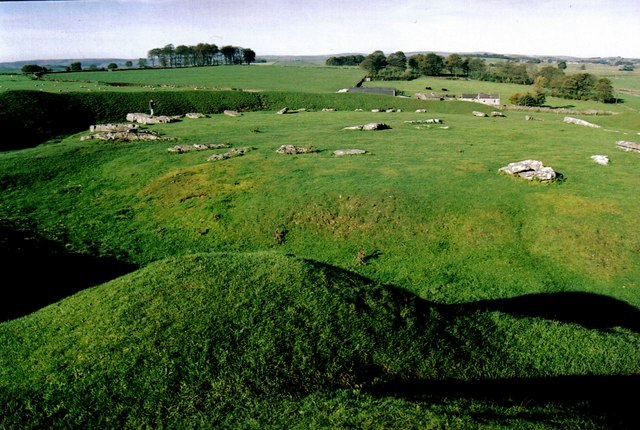 Arbor Low in the Autumn Not as spectacular as Stonehenge, but somewhat quieter.